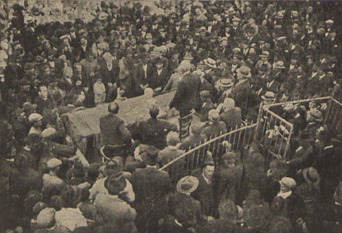 The problem of the waters. — Assembly held in Pozo Estrecho, asking the authorities to bring water to the countryside. — (Photo: «San-Chito»)